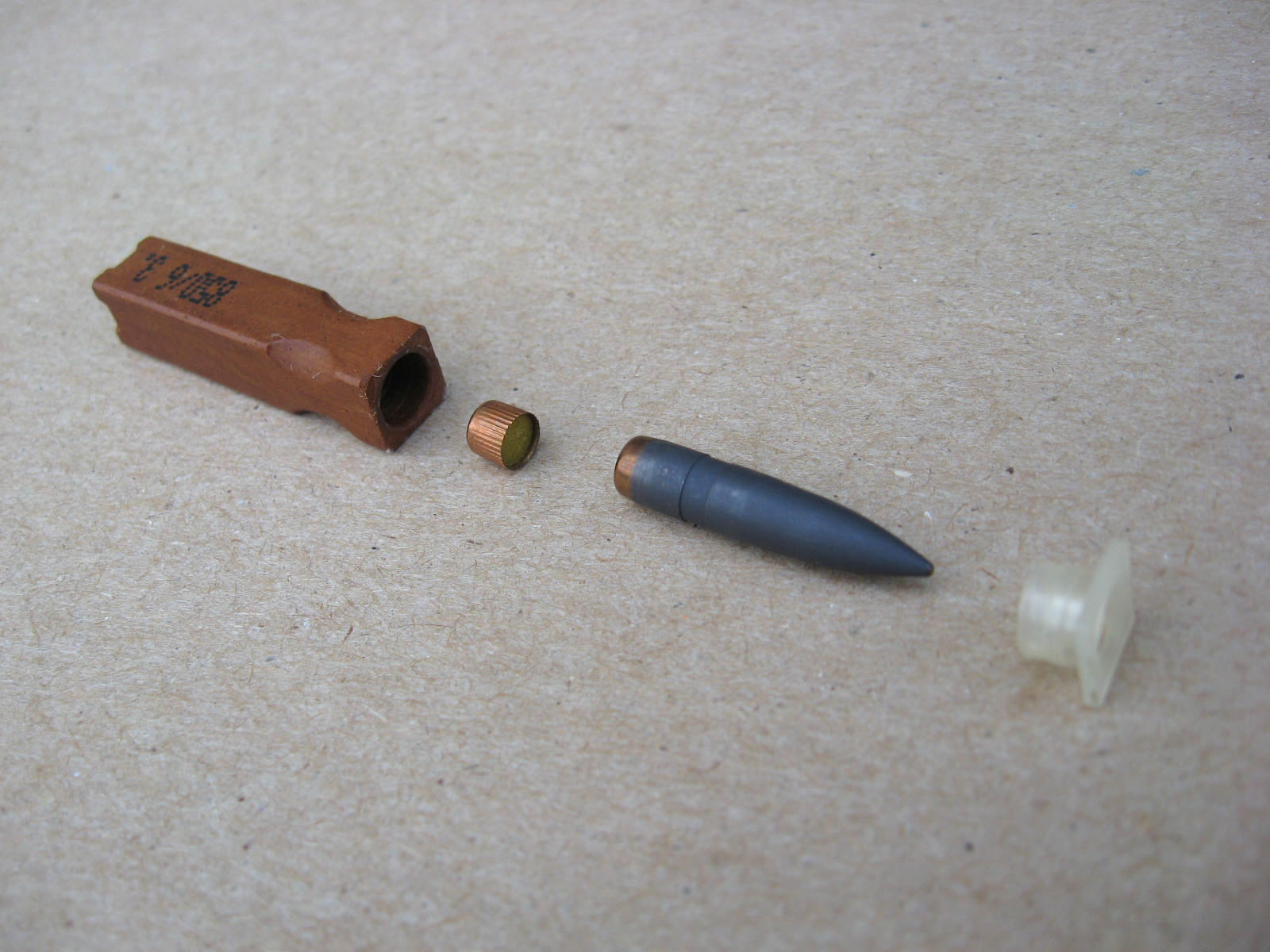 The 4.73 x 33mm caseless ammunition used in the G11 rifle, shown disassembled. The components are, from left to right, the solid propellant, the primer, the bullet, and a plastic cap that serves to keep the bullet centered in the propellant block.